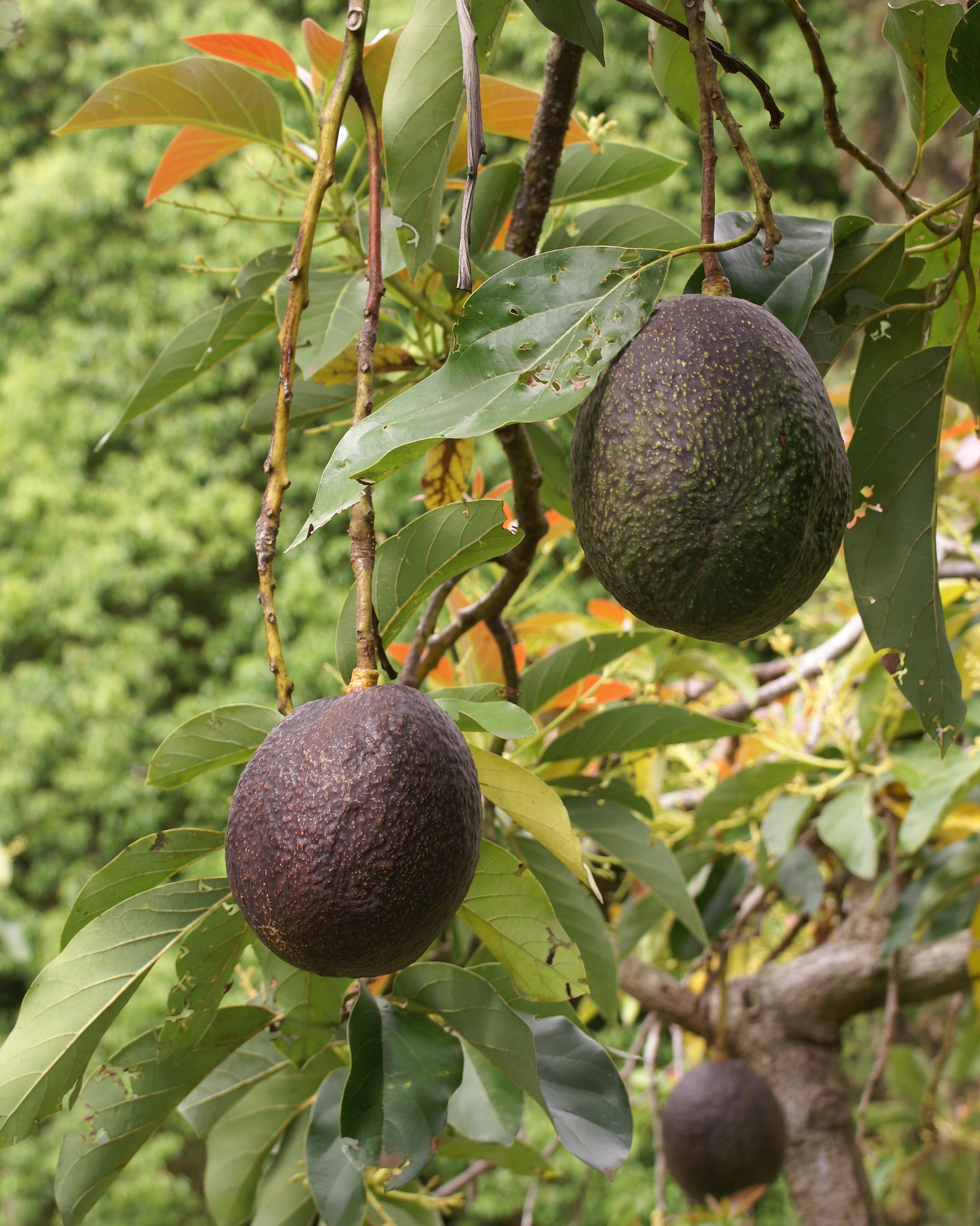 Avocados (Persea americana)